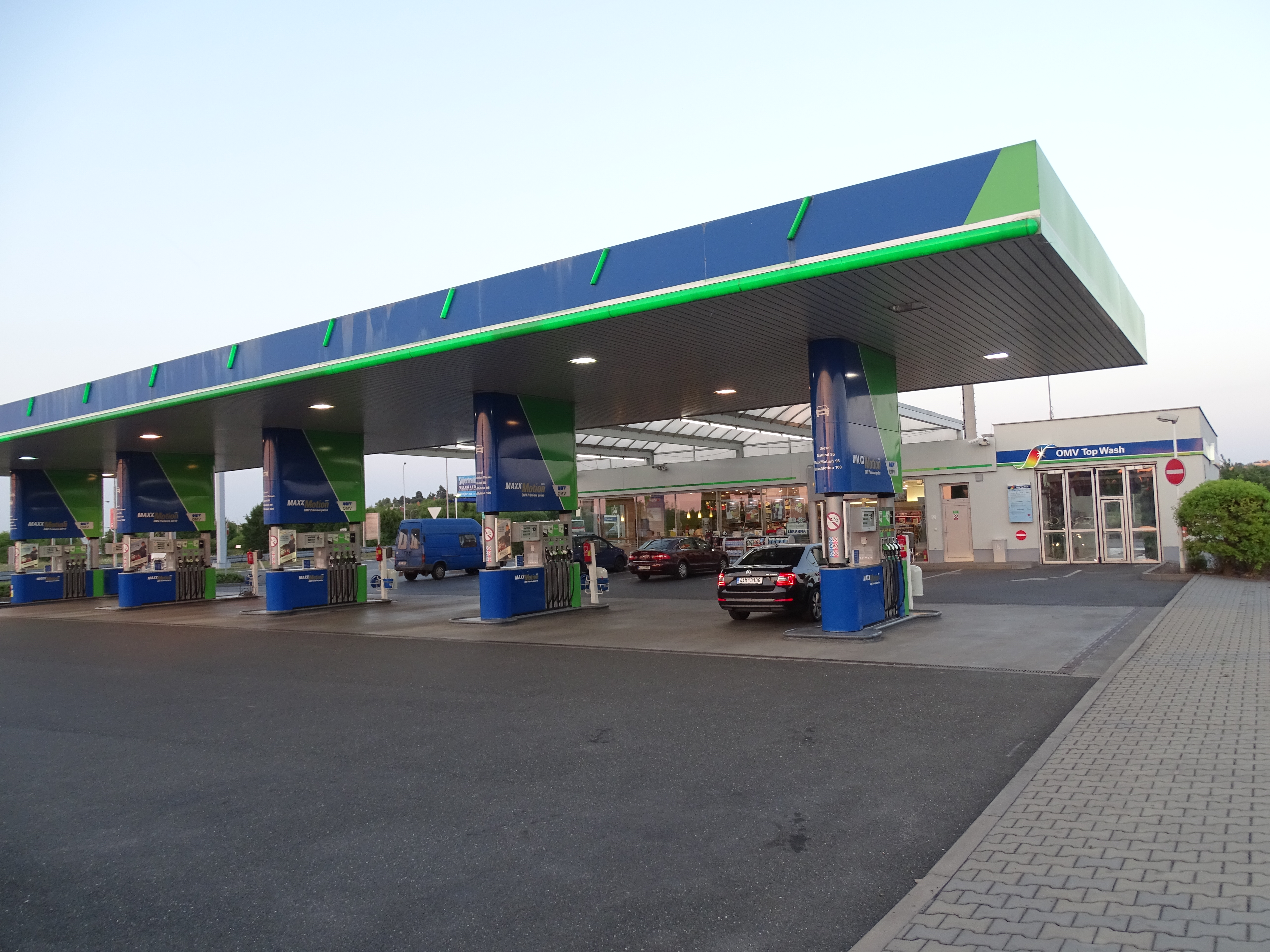 Prague-Michle, Czech Republic. Ke garážím, 5. května 1426/1a, OMV petrol station.